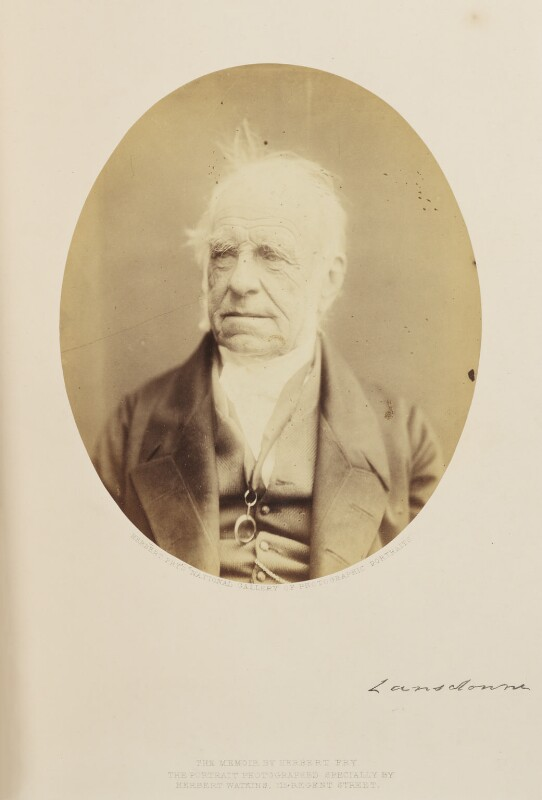 Henry Petty-Fitzmaurice, 3rd Marquess of Lansdowne, Chancellor of the Exchequer Sketch of the Third Marquis of Lansdowne in his later life taken from a photograph by Herbert Watkins